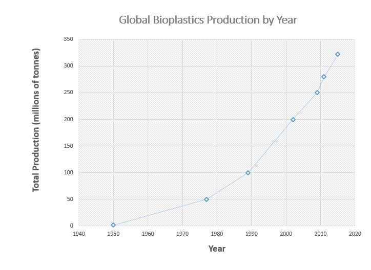 A chart depicting the increase in global plastic production, measured in Mt/y